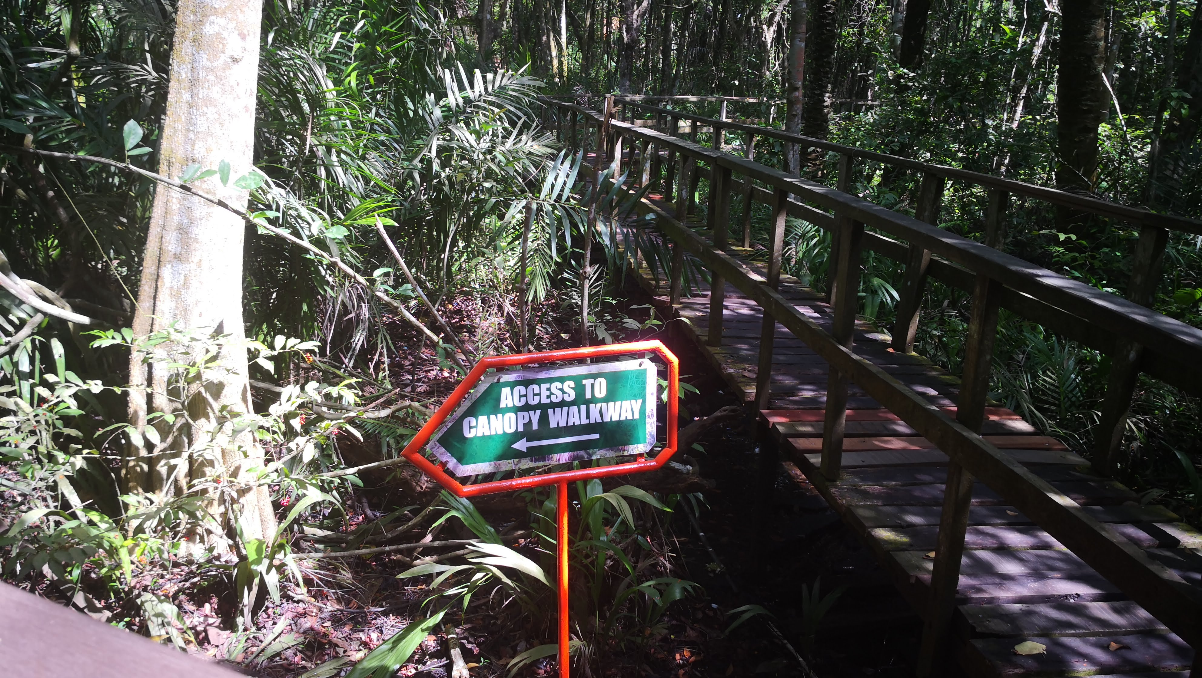 Lekki Conservation Centre Access Canaopy Walkway